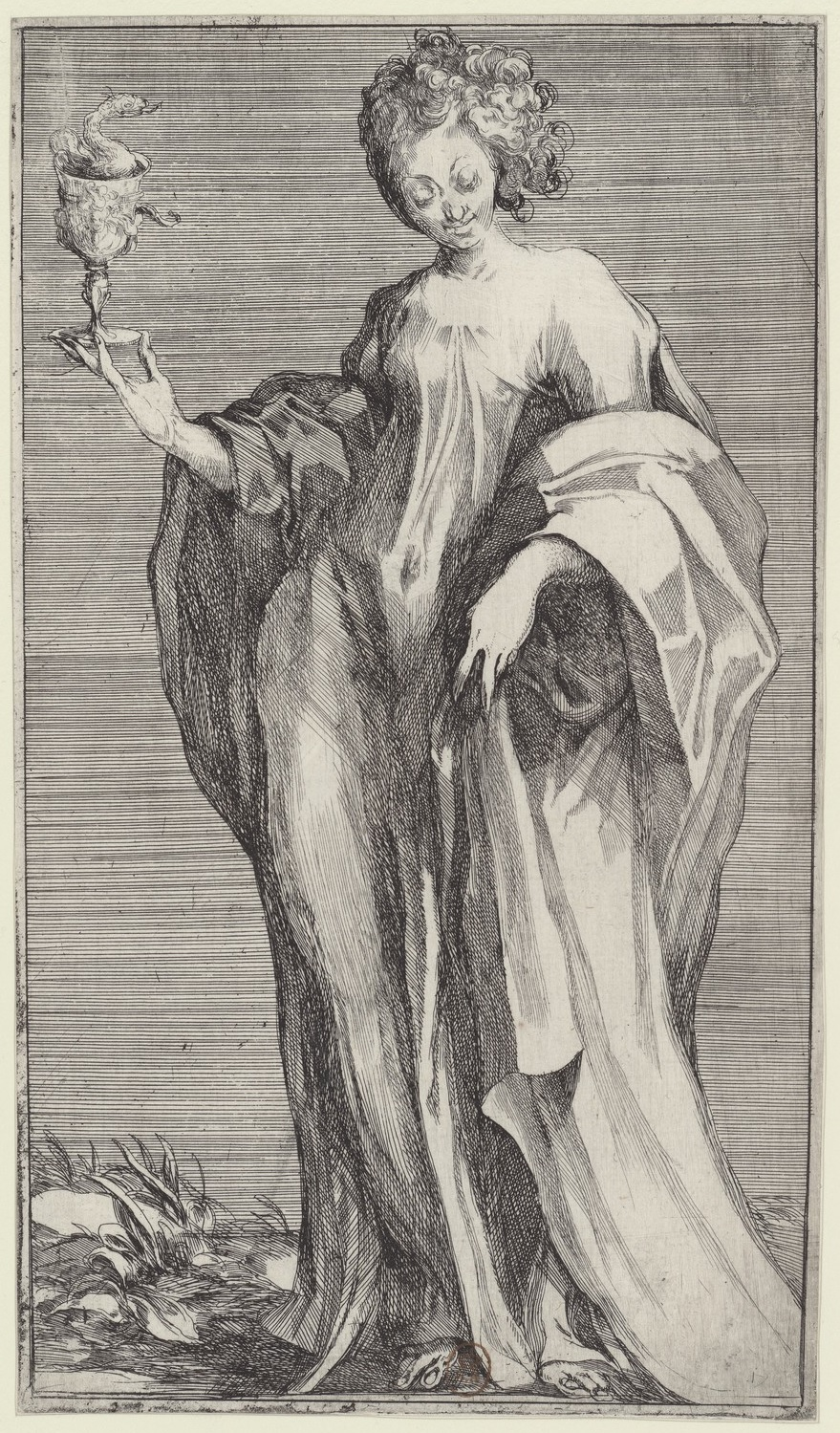 A Northern Mannerist portrayal of Saint John the Apostle by Jacques Bellange (c. 1575–1616), artist and printmaker from the Duchy of Lorraine. Part of an incomplete set of figures of Christ, St Paul and the Twelve Apostles, several in two versions, sixteen in total.